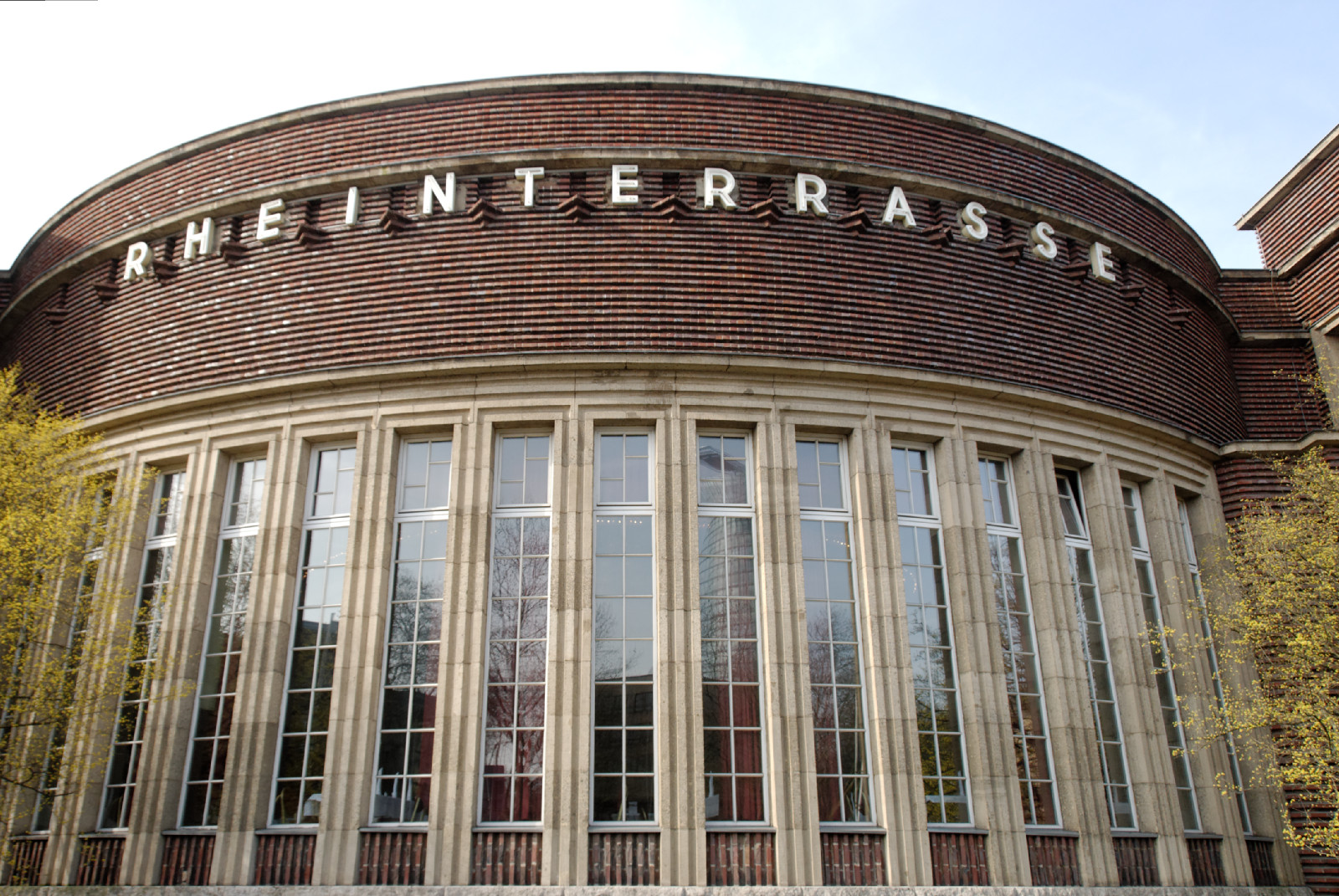 Rheinterrasse in Düsseldorf-Pempelfort, Germany